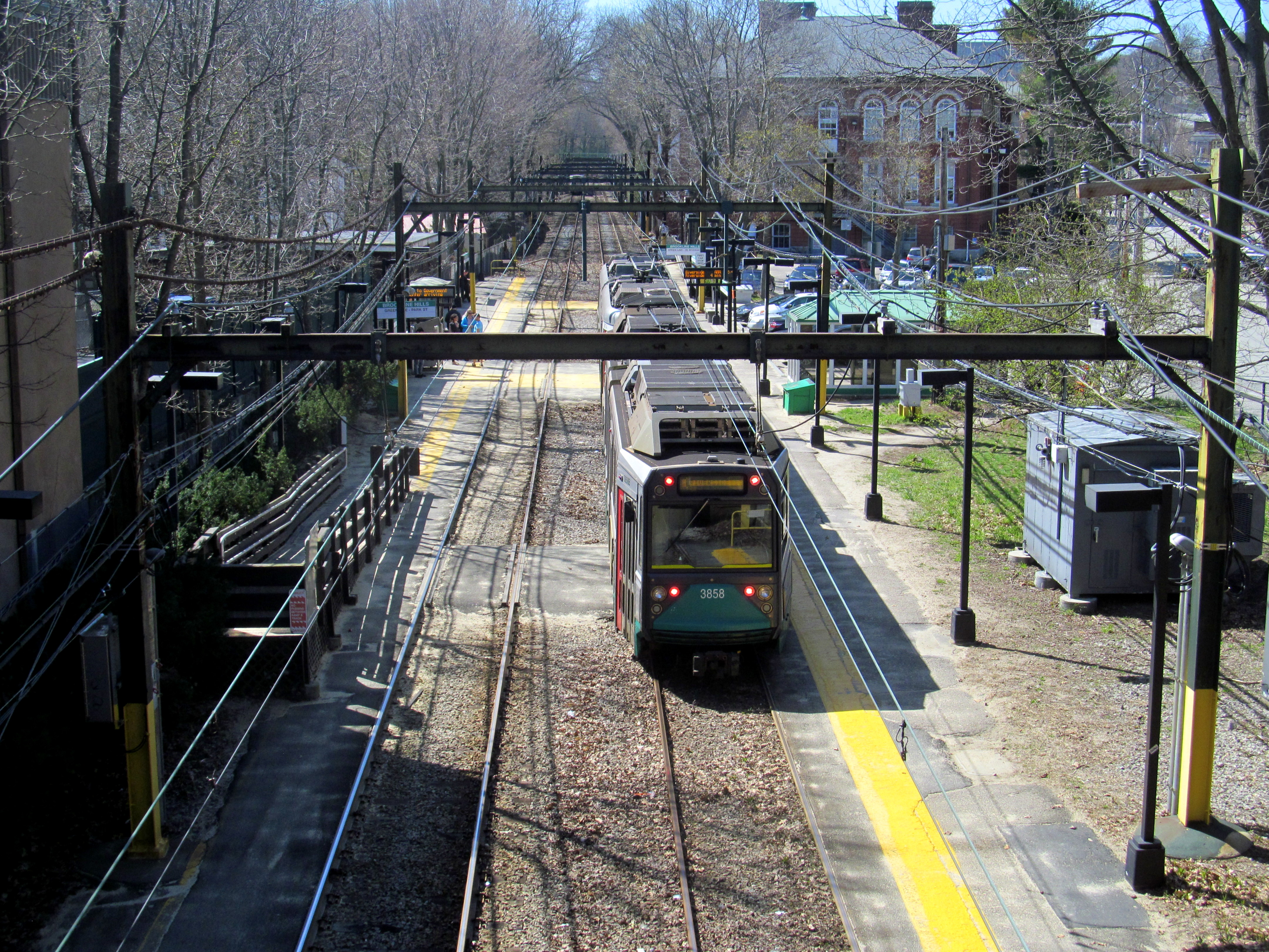 An outbound train at Brookline Hills station in April 2016